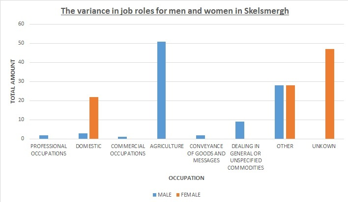 Graph showing the different jobs of the residents of Skelsmergh based on the 1881 Census.